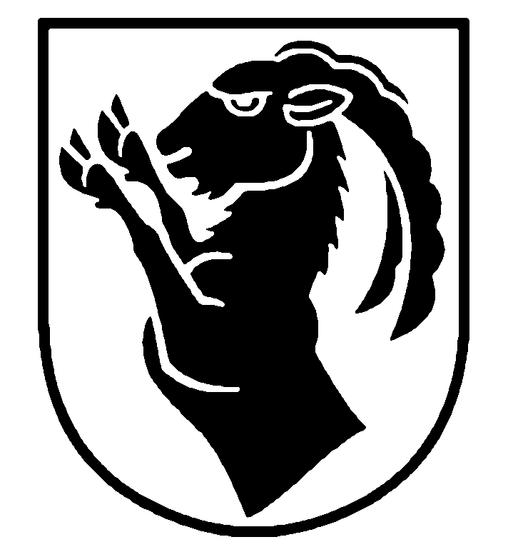 Coat of arms of Interlaken, Switzerland